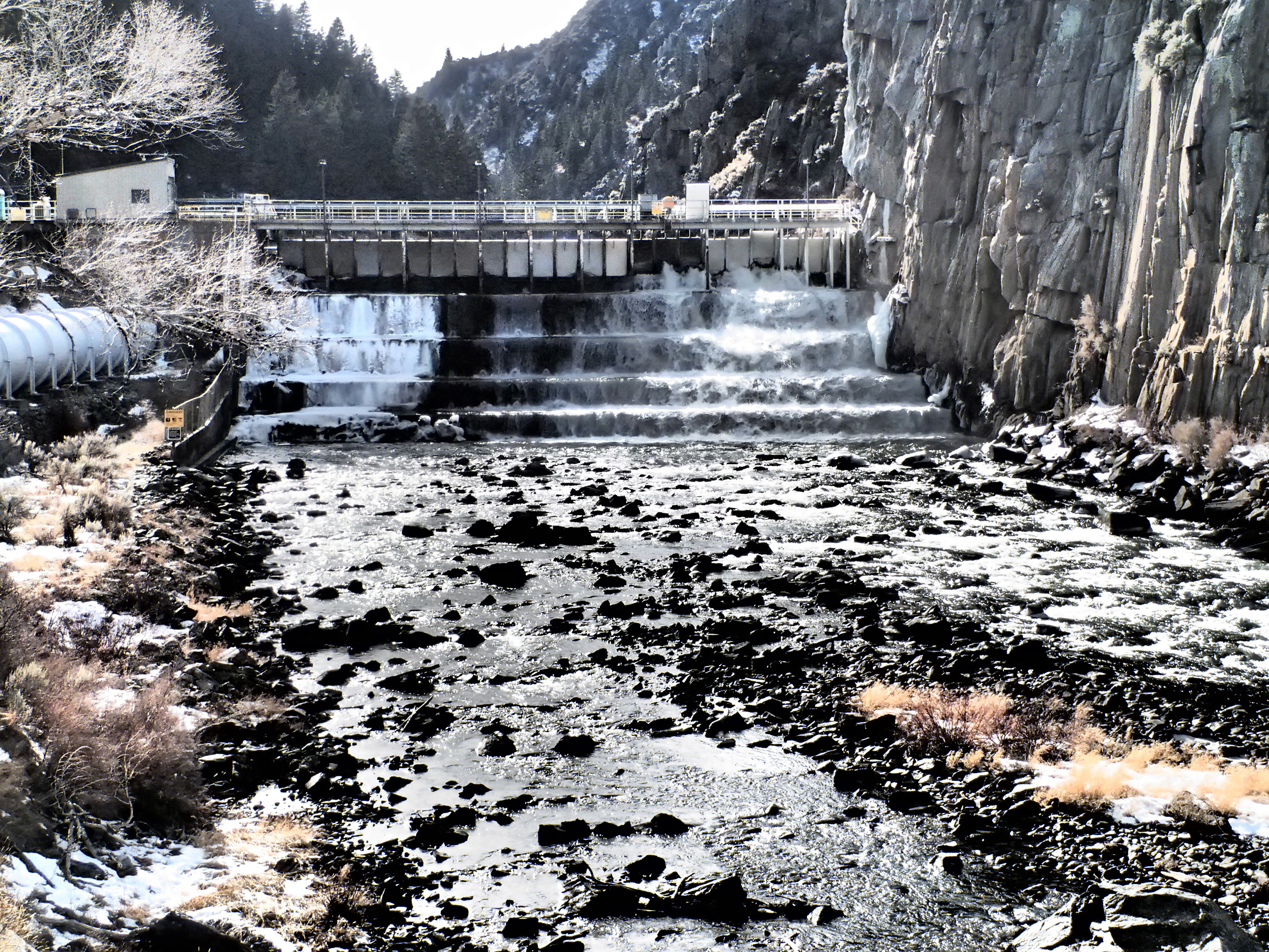 Madison River near Ennis, Montana January 2015